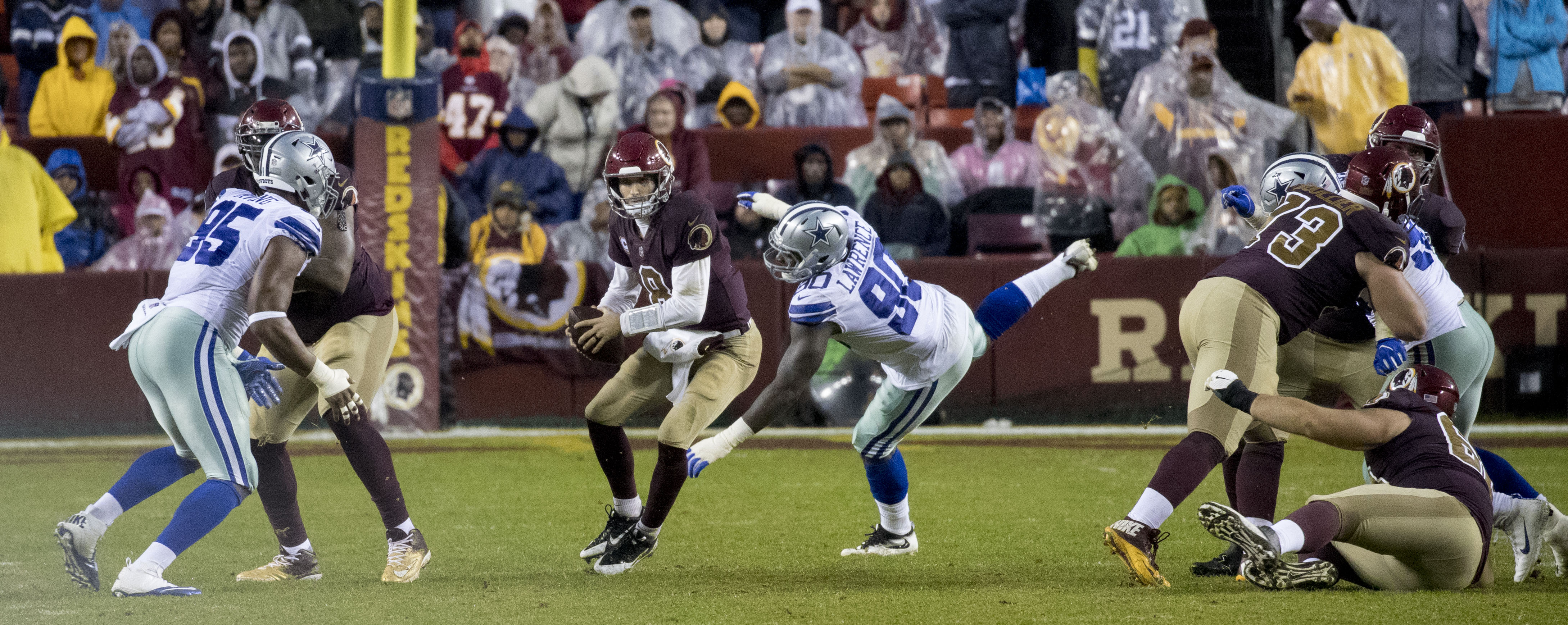 Cowboys at Redskins 10/29/17